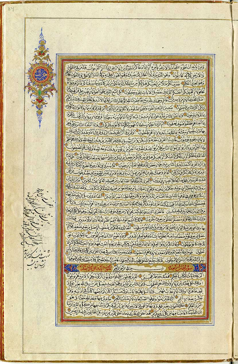 Scan of a Qur'an from the year 1874